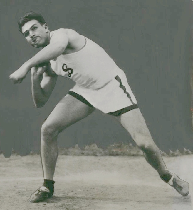 1931 Press Photo Nelson Gray Stanford shot put & discus thrower - net07392